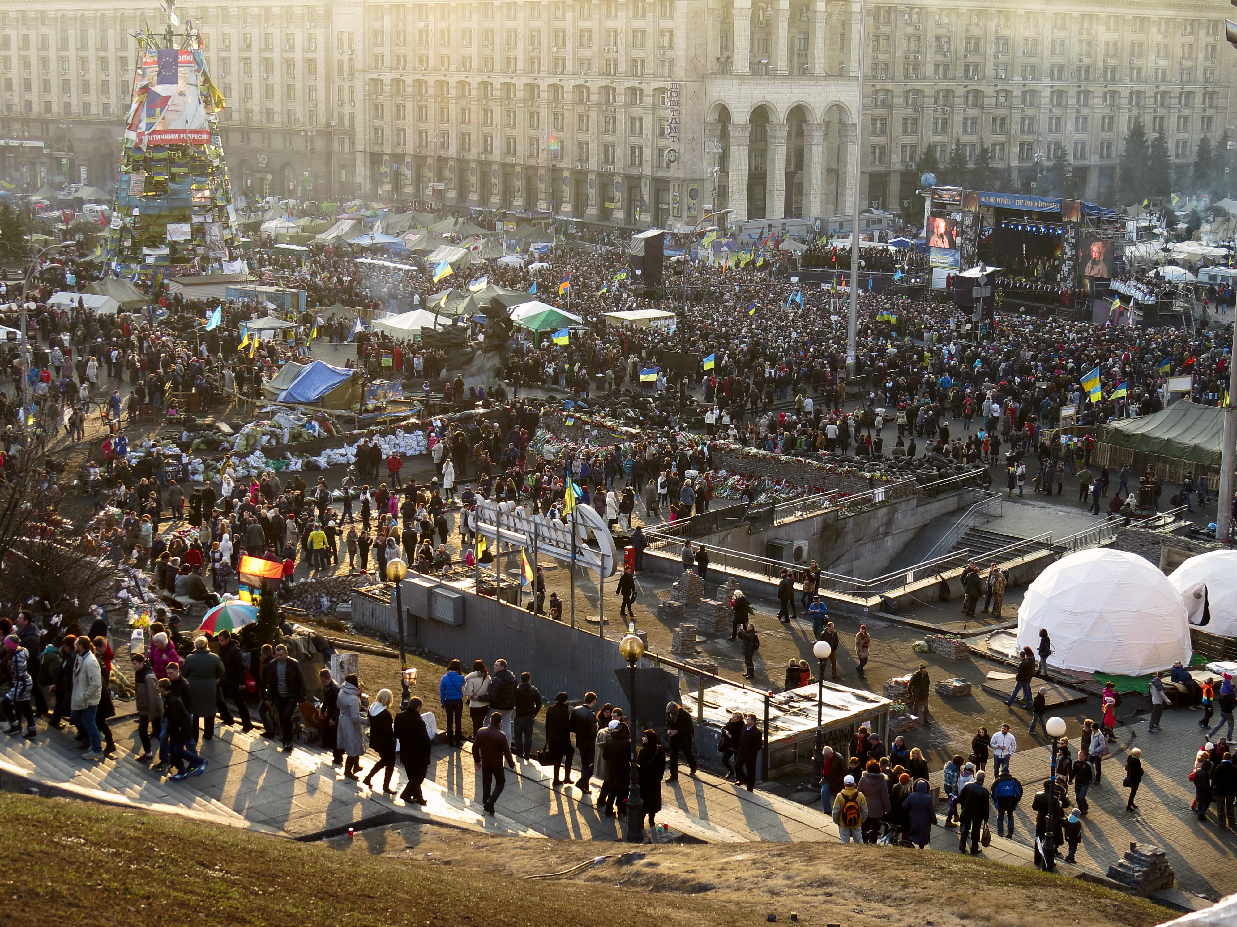 Kiev, Maidan Nezalezhnosti. Meeting and concert on celebrations for the 200th anniversary of the birth of Taras Shevchenko